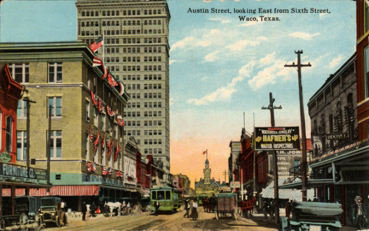 Waco, TX - Austin Street from 6th Street - Alico Building